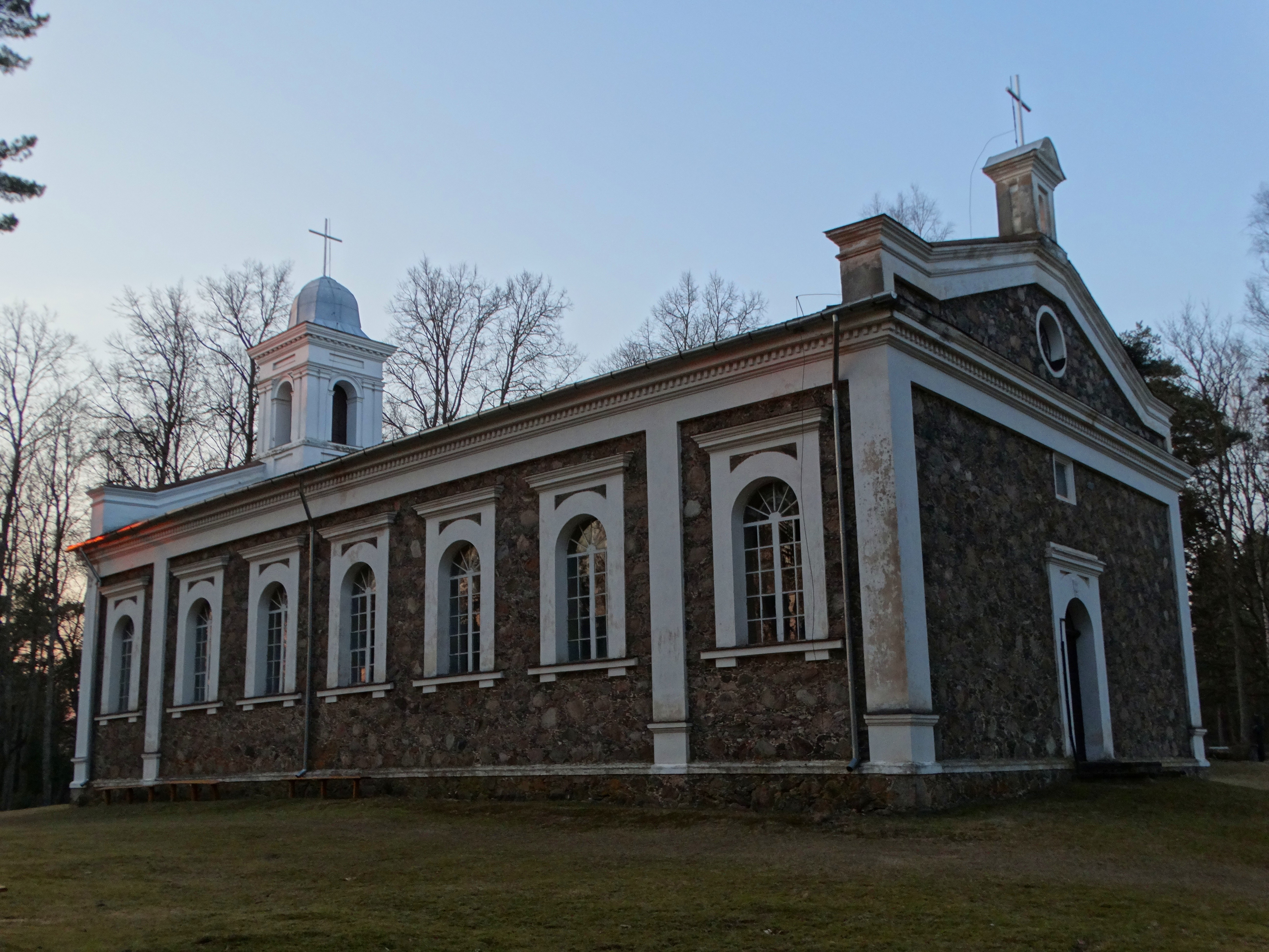 Evangelical Lutheran Church in Alkiškiai, Akmenė district, Lithuania